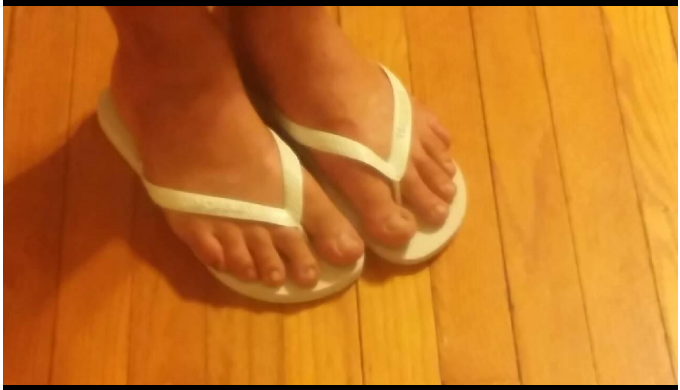 Flip flops being worn